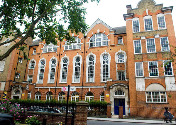 Picture of Kensington and Chelsea College building. Hortensia Centre on Hortensia Road in Chelsea London.